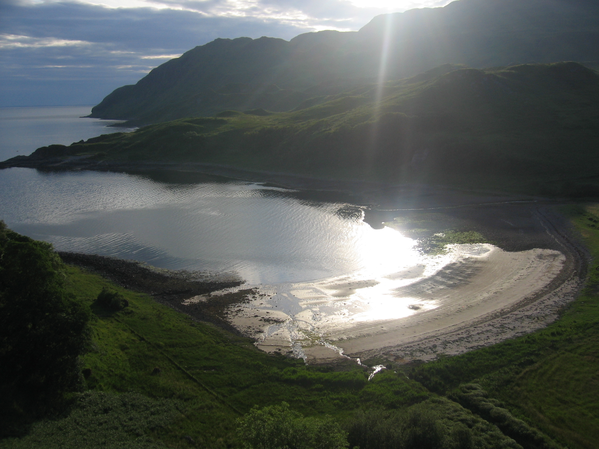 Sanna Bay near Kilchoan, Scotland